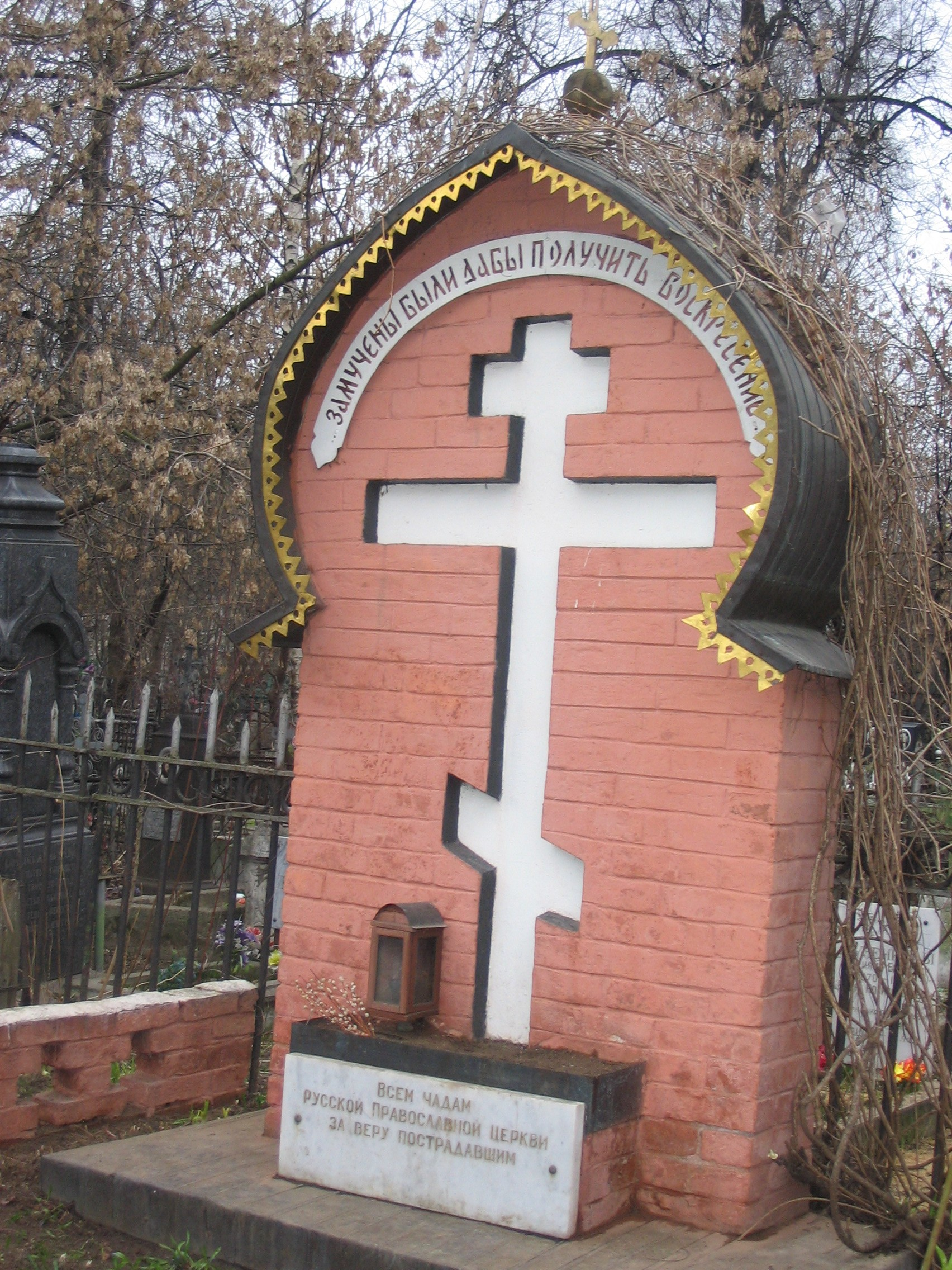 Monument to the martyrs of the Russian Church in Izmaylovo, Russia